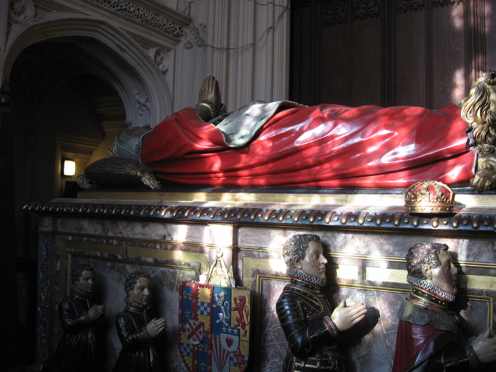 Tomb of Margaret Douglas in Westminster Abbey, showing her four sons, of whom two died in infancy. Her second son Henry, Lord Darnley, even though the second eldest is shown as the oldest and with a crown above his head, indicating his status as nominal King of Scotland as husband of Mary, Queen of Scots.